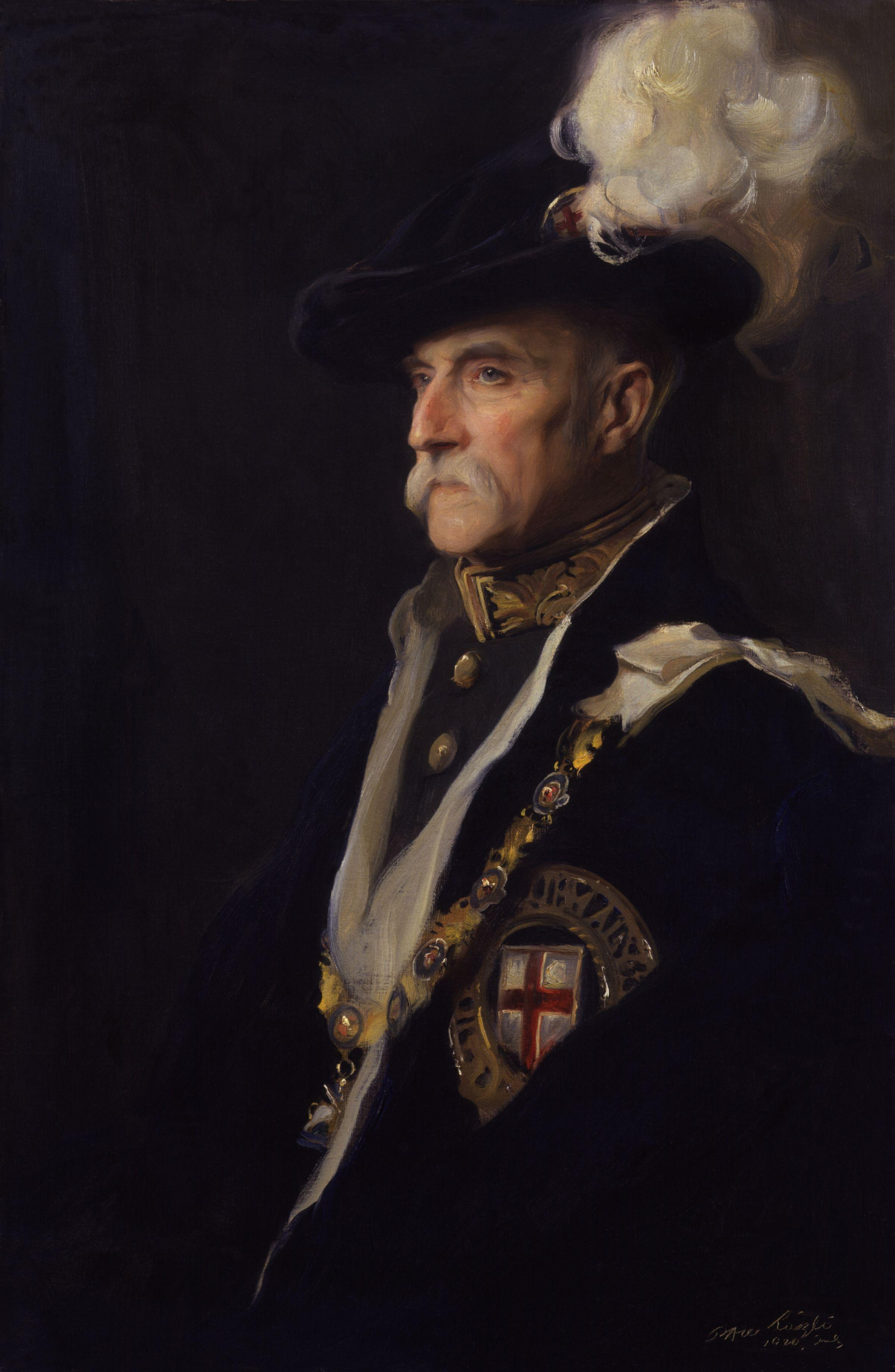 Henry Charles Keith Petty-Fitzmaurice, 5th Marquess of Lansdowne, by Philip Alexius de László (died 1937), given to the National Portrait Gallery, London in 1928. All images in this batch have been confirmed as author died before 1939 according to the official death date listed by the NPG.